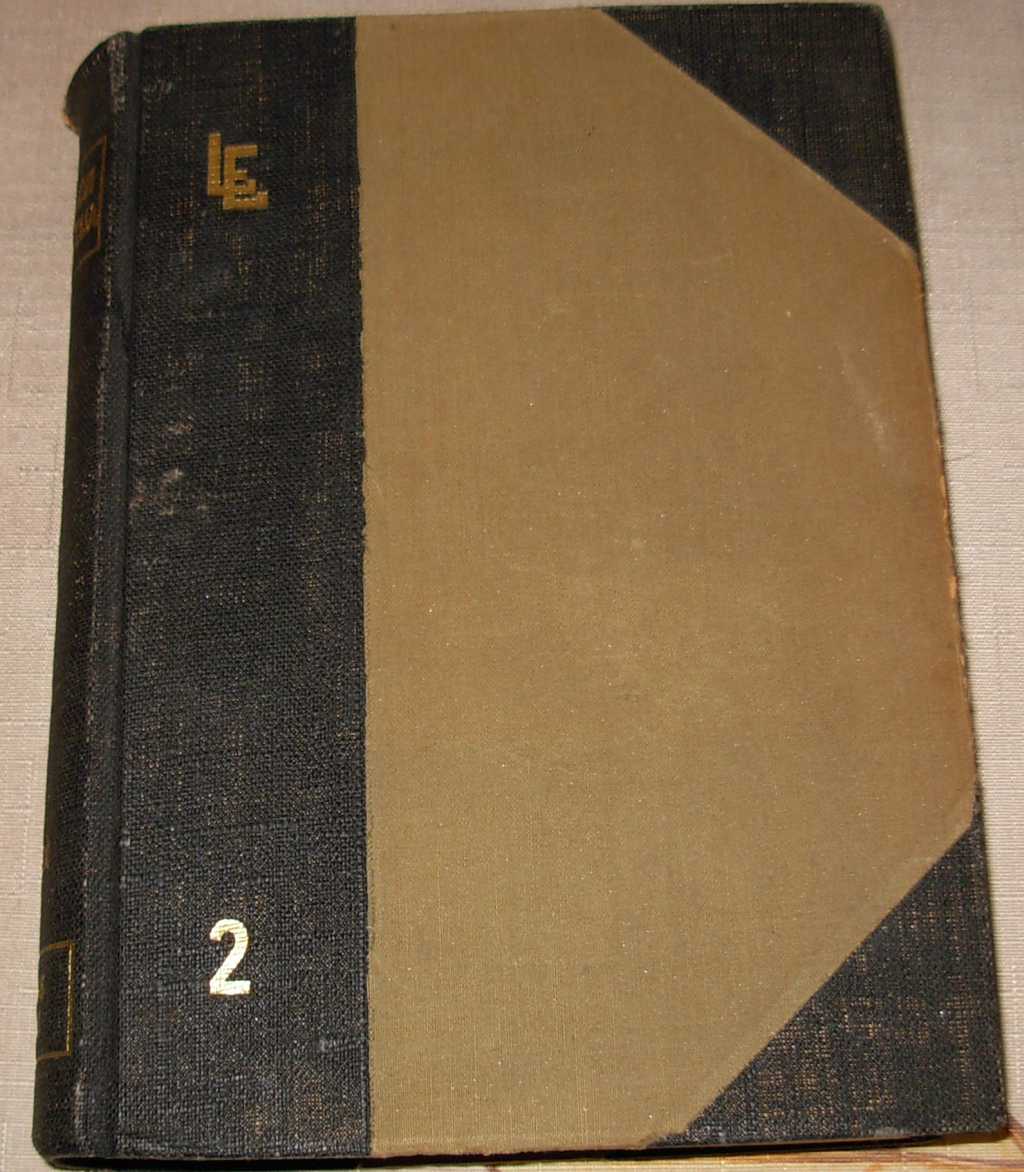 First Lithuanian Encyclopedia